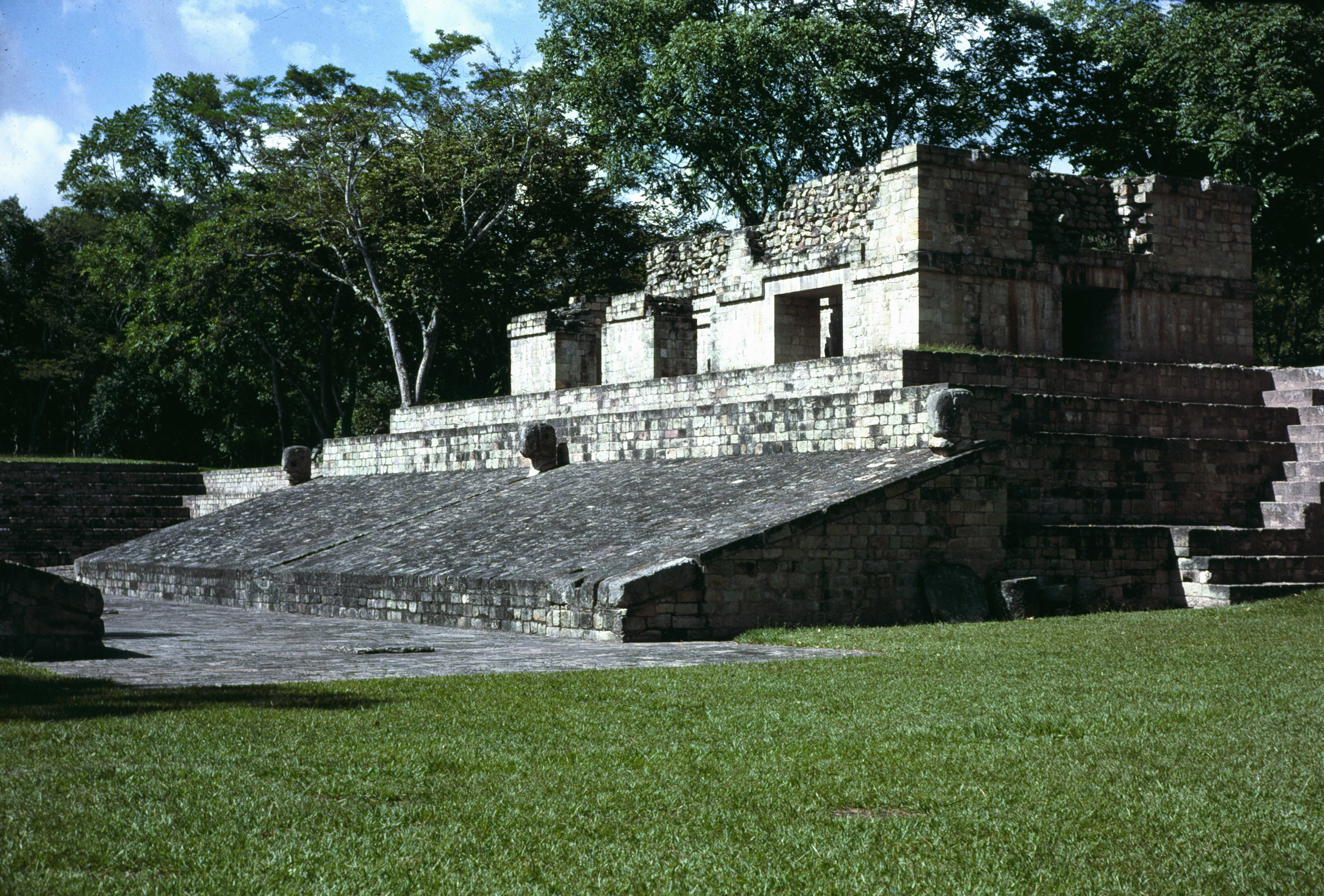 Copan, Honduras, Ball court